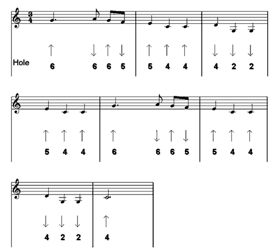 "Oh du lieber Augustin" is a Viennese folk song, composed by Marx Augustin in 1679.